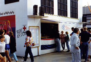 The AFN Berlin booth at the German American Volksfest at Hüttenweg in 1986.